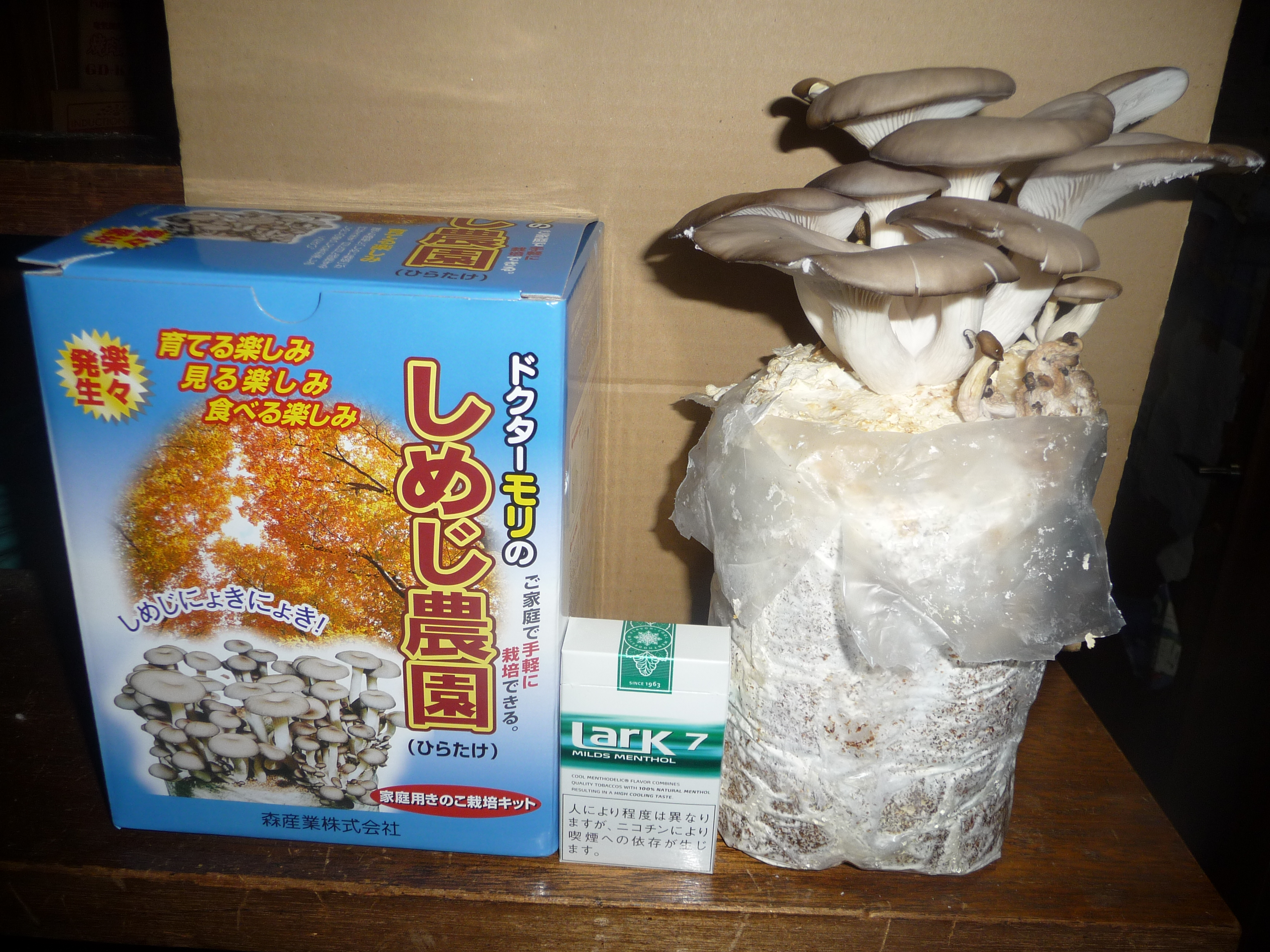 oyster mushroom at Chatama's home. A kit on the market that the mushroom is grown. See sizing compared with the box of the cigarette.